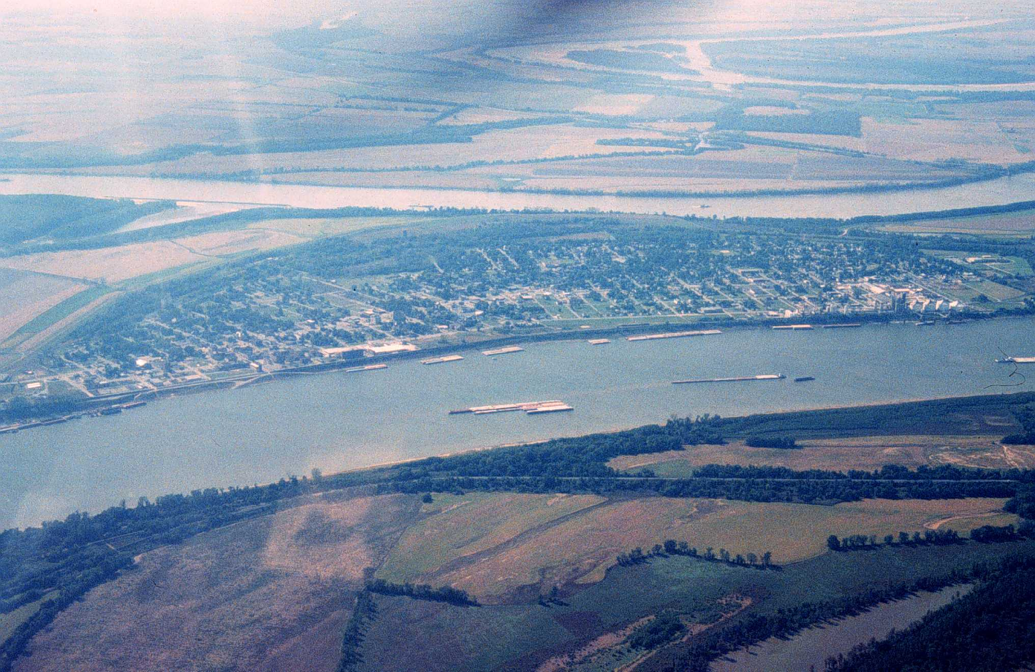 Aerial photo of Cairo, IL